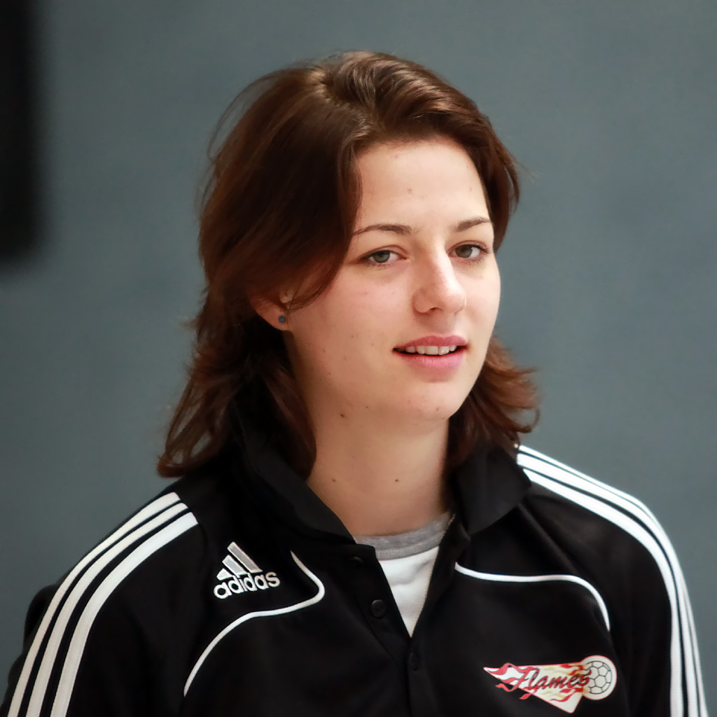 Maike Brückmann, German handball player